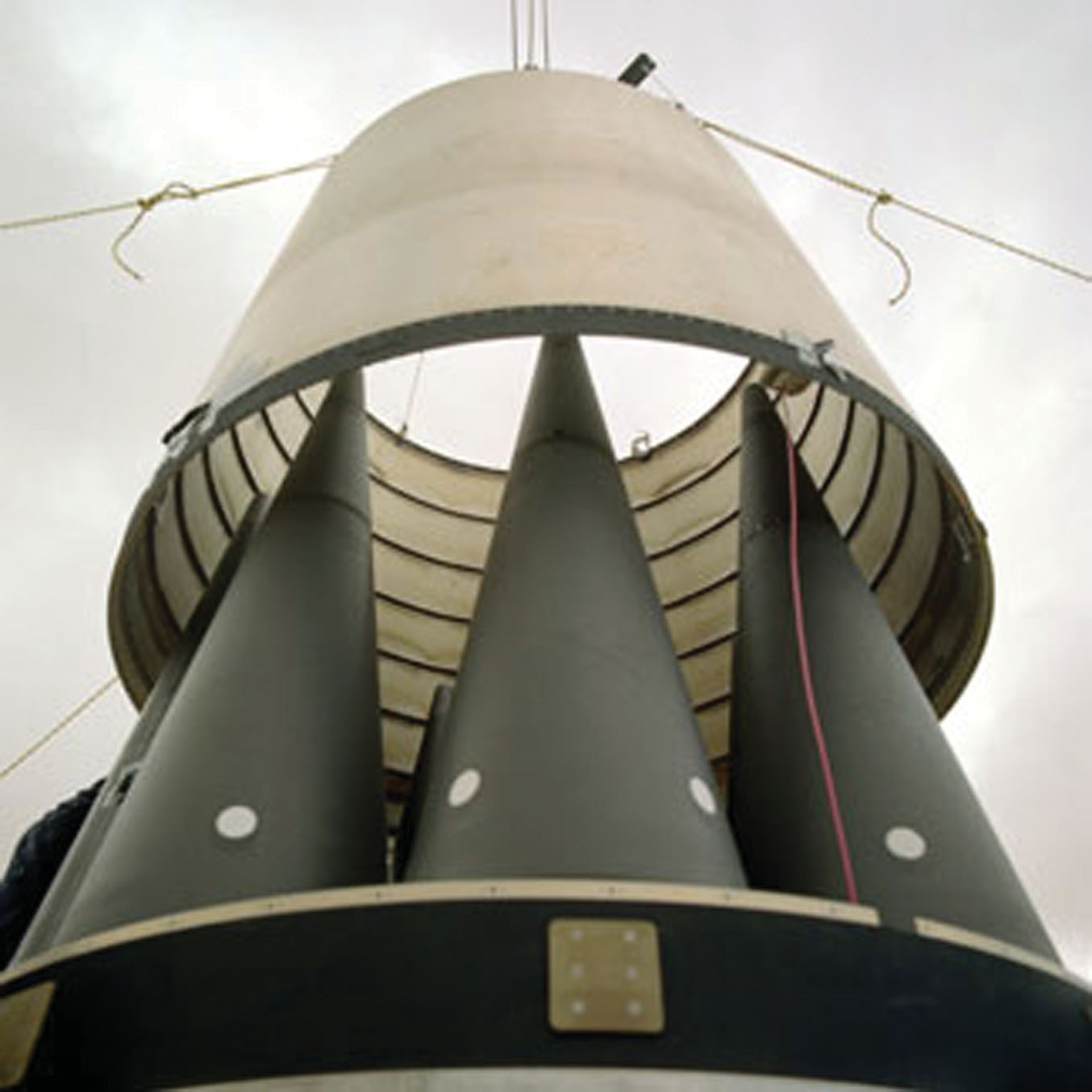 W86 Peacekeeper Warheads on top of missile